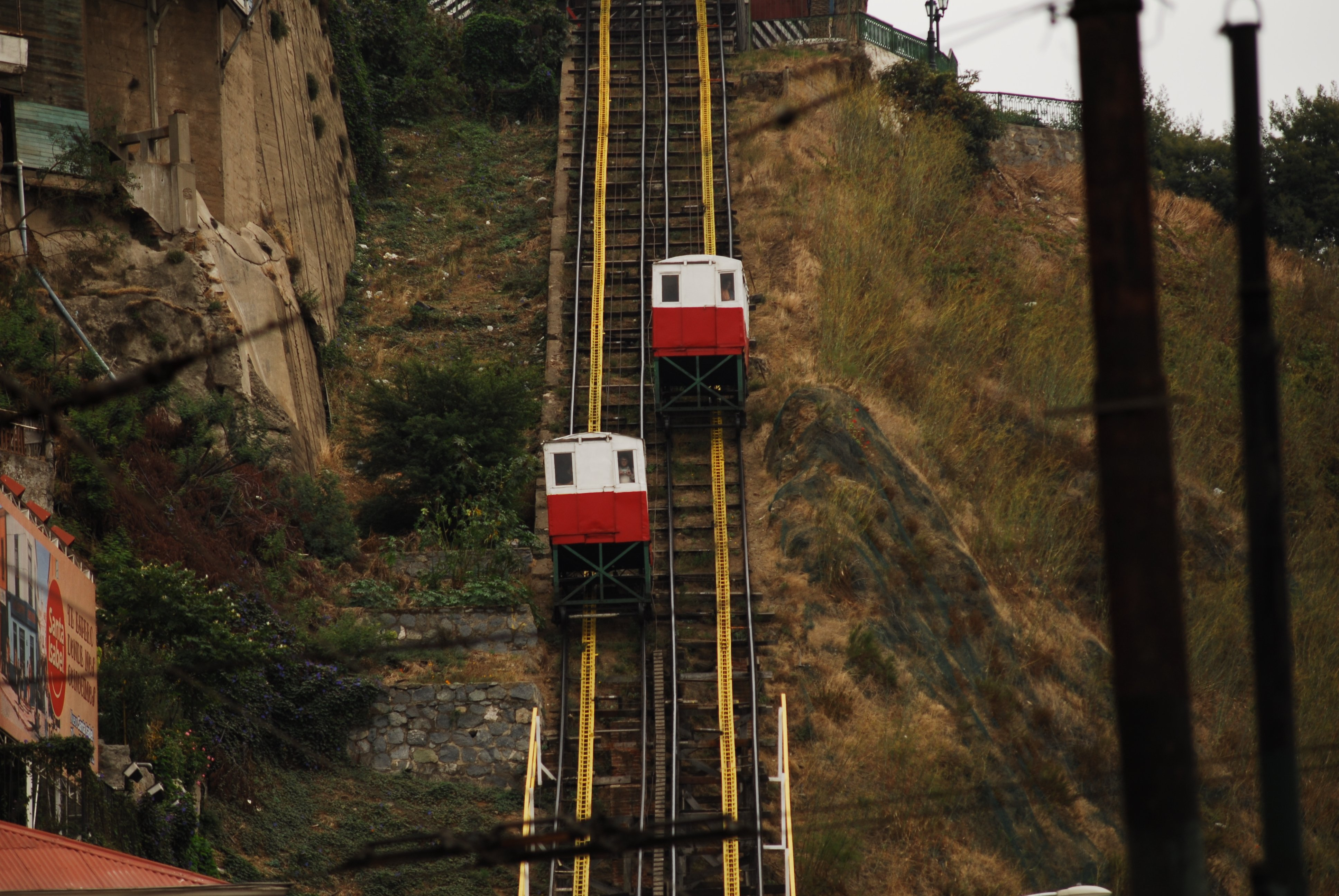 Artilleria Funicular in Valparaíso.